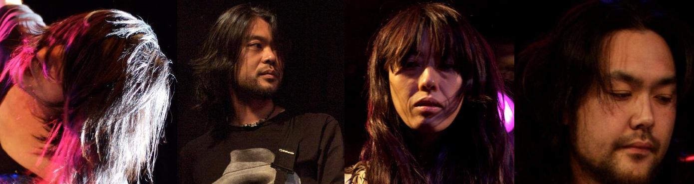 Mono (left to right): Takaakira Goto, Yoda, Tamaki Kunishi, Yasunori Takada